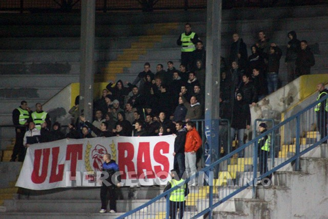 Football match HŠK Zrinjski Mostar-FK Željezničar